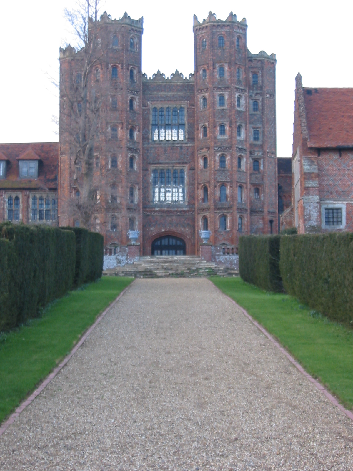 Layer MarneyIMG_5855